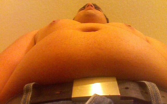 William Stiger an Overweight young adult male - 205 lbs, 27 BMI, 25% body fat.